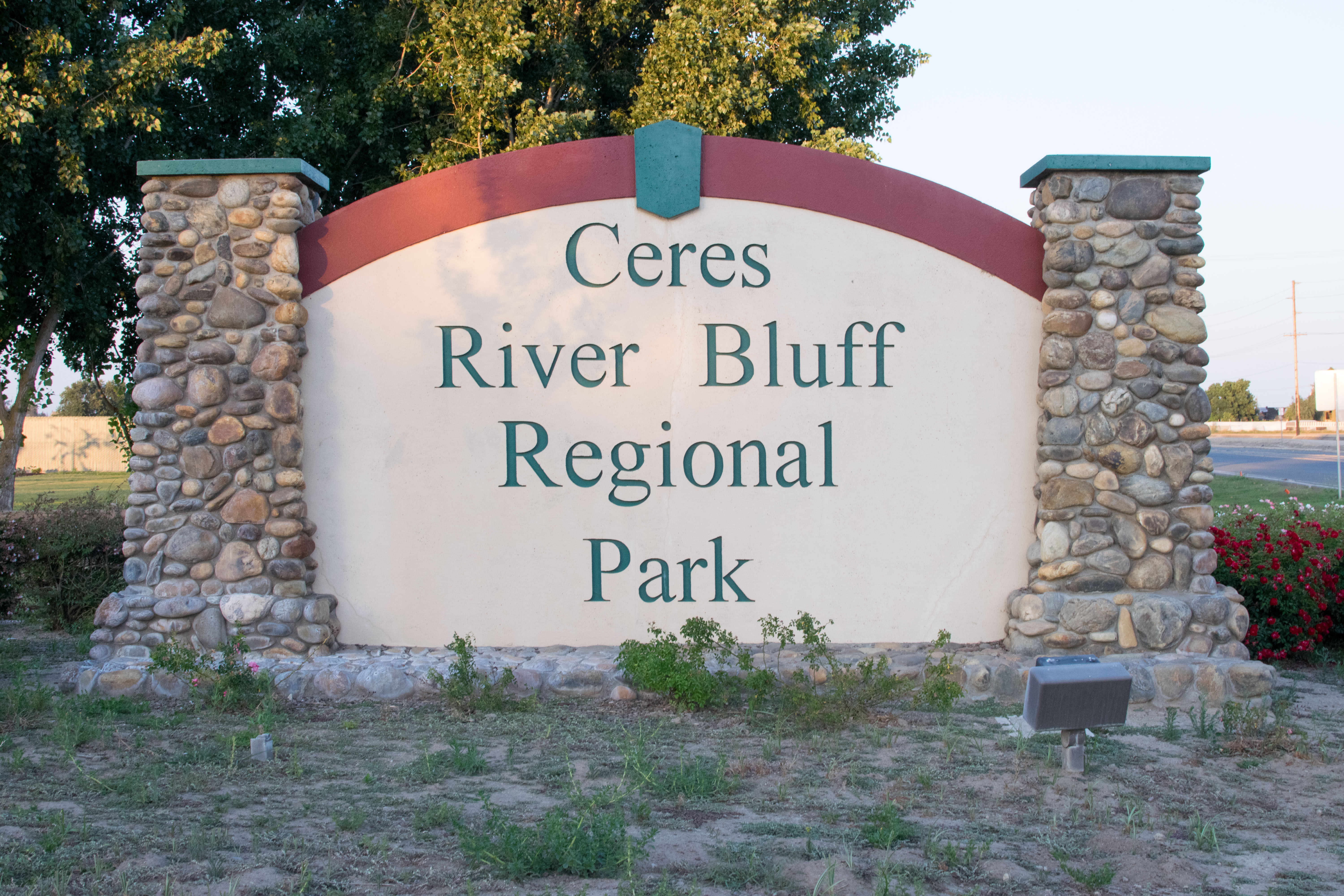 The sign at the main gate of the Ceres River Bluff Regional Park